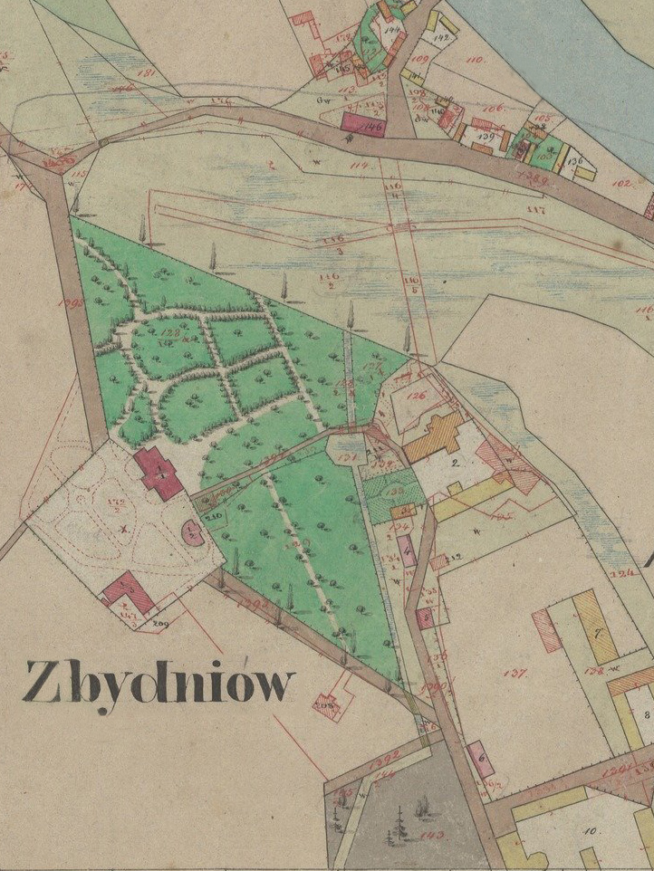 Manor house in Zbydniów on a map from 1851.